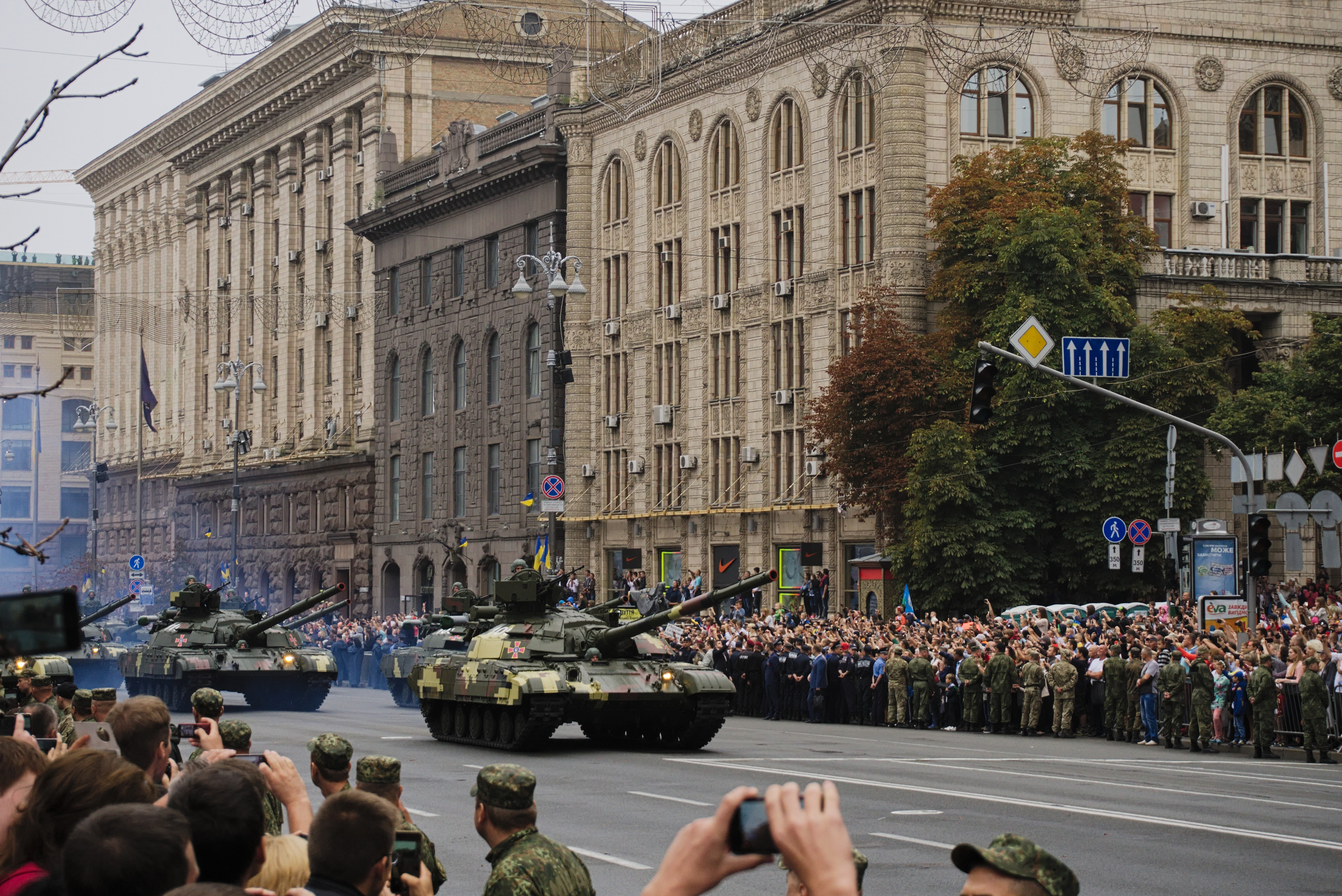 BM «Bulat» (1st Guards Tank Brigade)